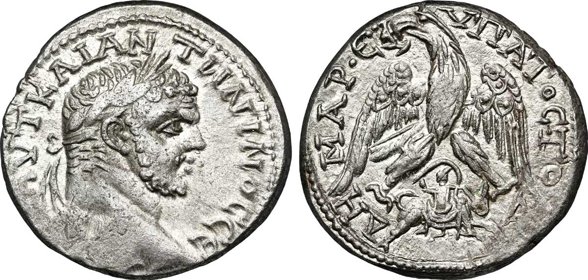 Monnaie frappée en la cité de Sidon (période romaine)